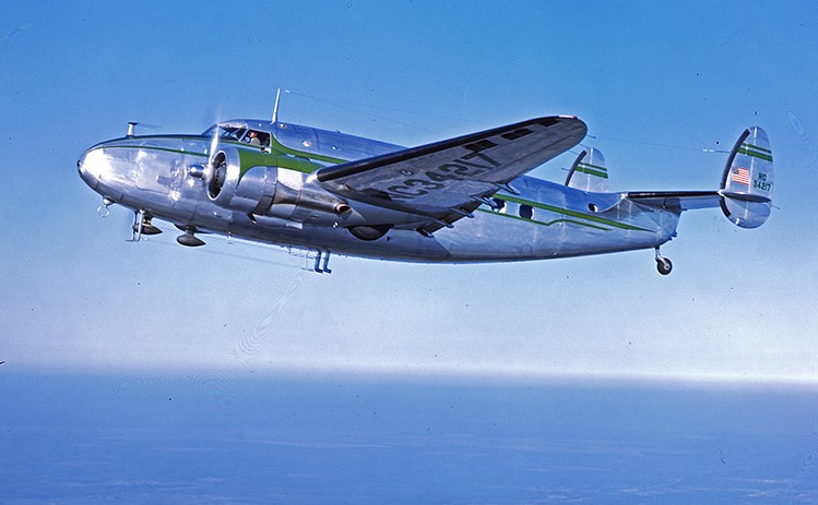 Title: [Lockheed Model 18 Lodestar, James S. Abercrombie Company] Creator: Robert Yarnall Richie Date: ca. 1947-1948 Place: Houston, Texas Part Of: Robert Yarnall Richie Photograph Collection Physical Description: 1 transparency: film, color; 10.0 x 12.6 cm File: ag1982_0234_2980_02_K_jsabercrombie_sm_opt.jpg Rights: Please cite Southern Methodist University, Central University Libraries, DeGolyer Library when using this image file. A high-quality version of this file may be obtained for a fee by contacting . For more information, see: View the Robert Yarnall Richie Photograph Collection